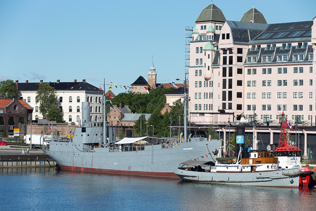 DS Hestmanden and DS Styrbjørn in Bjørvika. Participating in Kyststevnet 2014 in Oslo, Norway